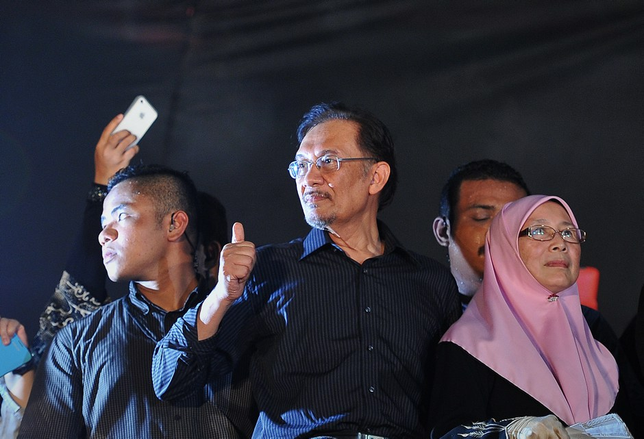 Malaysian opposition leader Anwar Ibrahim speaks during a rally dressed in mourning black gathered May 8 to denounce elections which they claim were stolen through fraud by the coalition that has ruled for 56 years. in Kuala Lumpur 08 May 2013. PIX Firdaus Latif